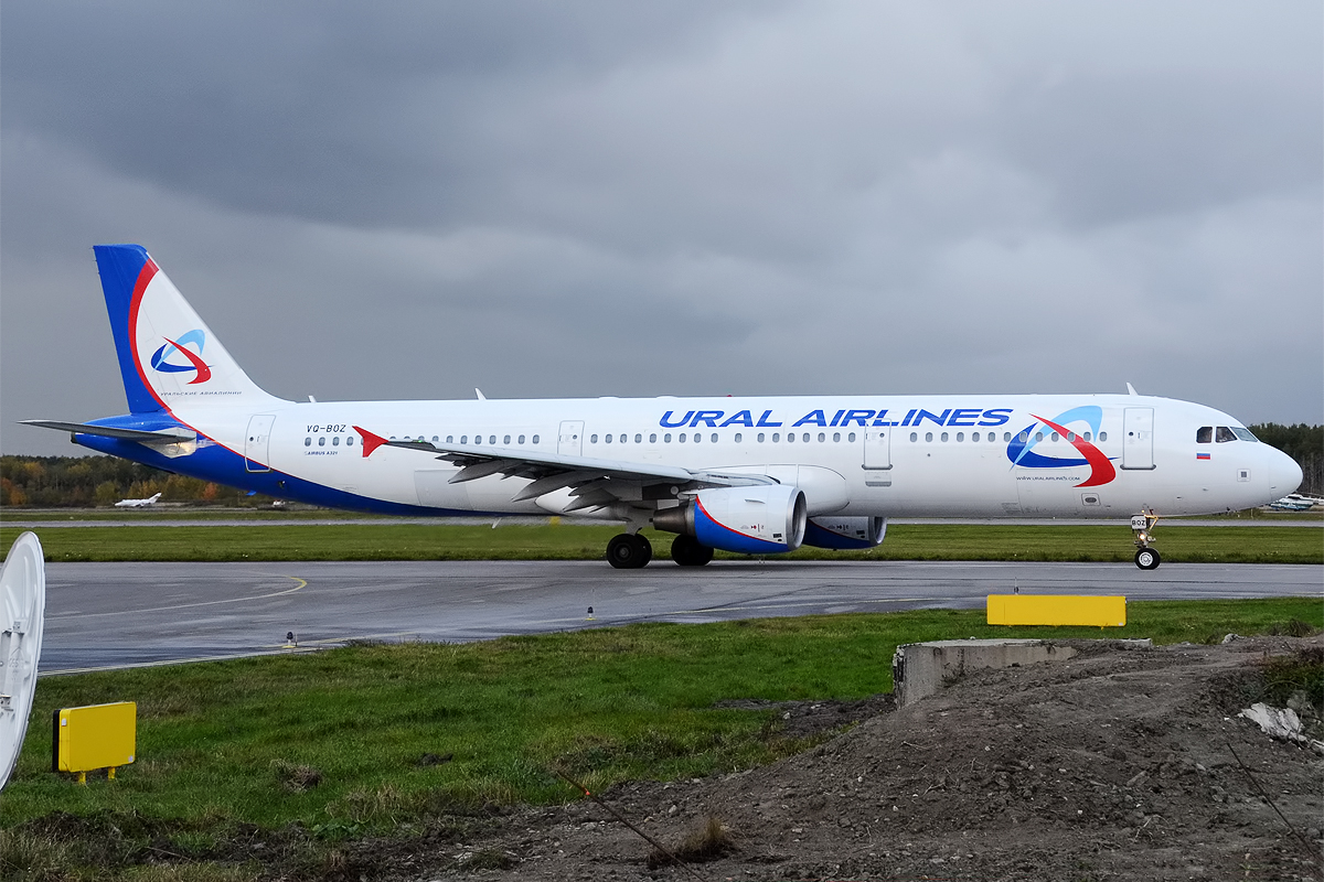 Ural Airlines, VQ-BOZ, Airbus A321-211